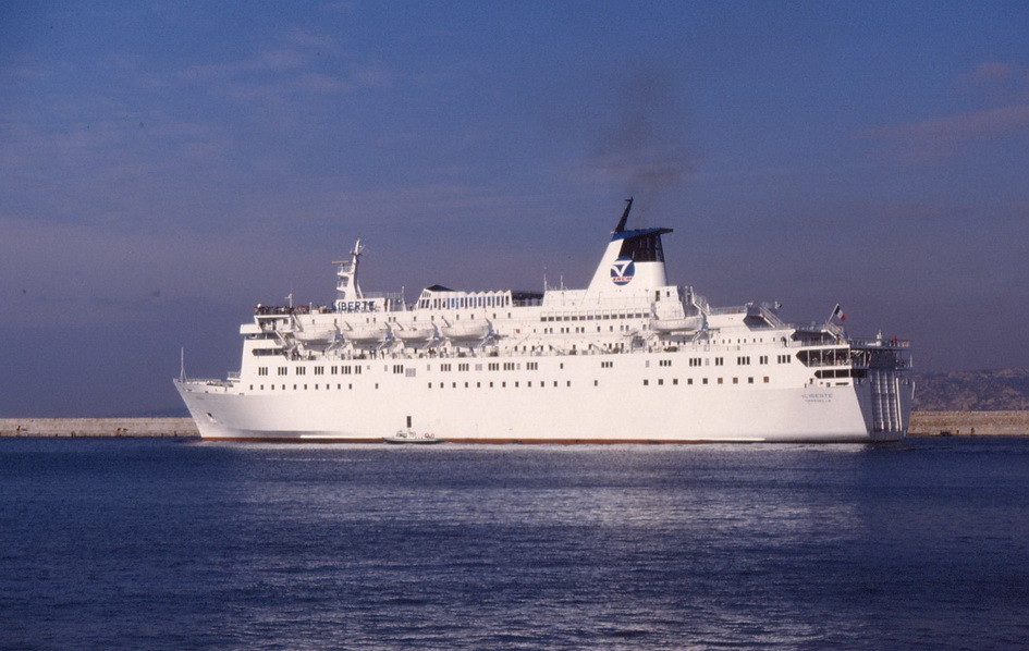 SNCM's ferry MS Liberte built in 1980.